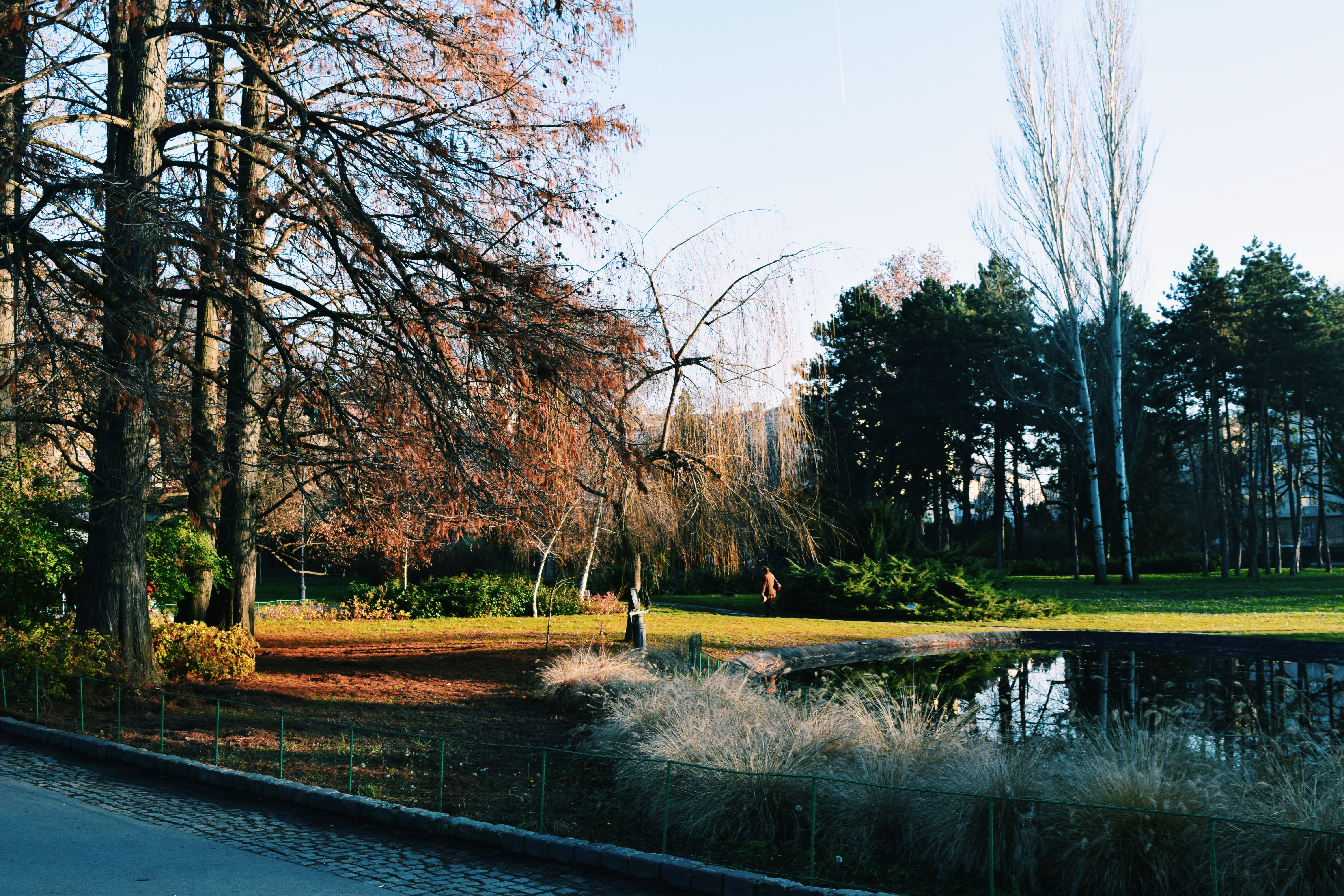 Danube Park or Dunavski Park is an urban park in the downtown of Novi Sad, the capital of the Vojvodina Province, Serbia. Formed in 1895, it is protected as the natural monument and is one of the symbols of the city.